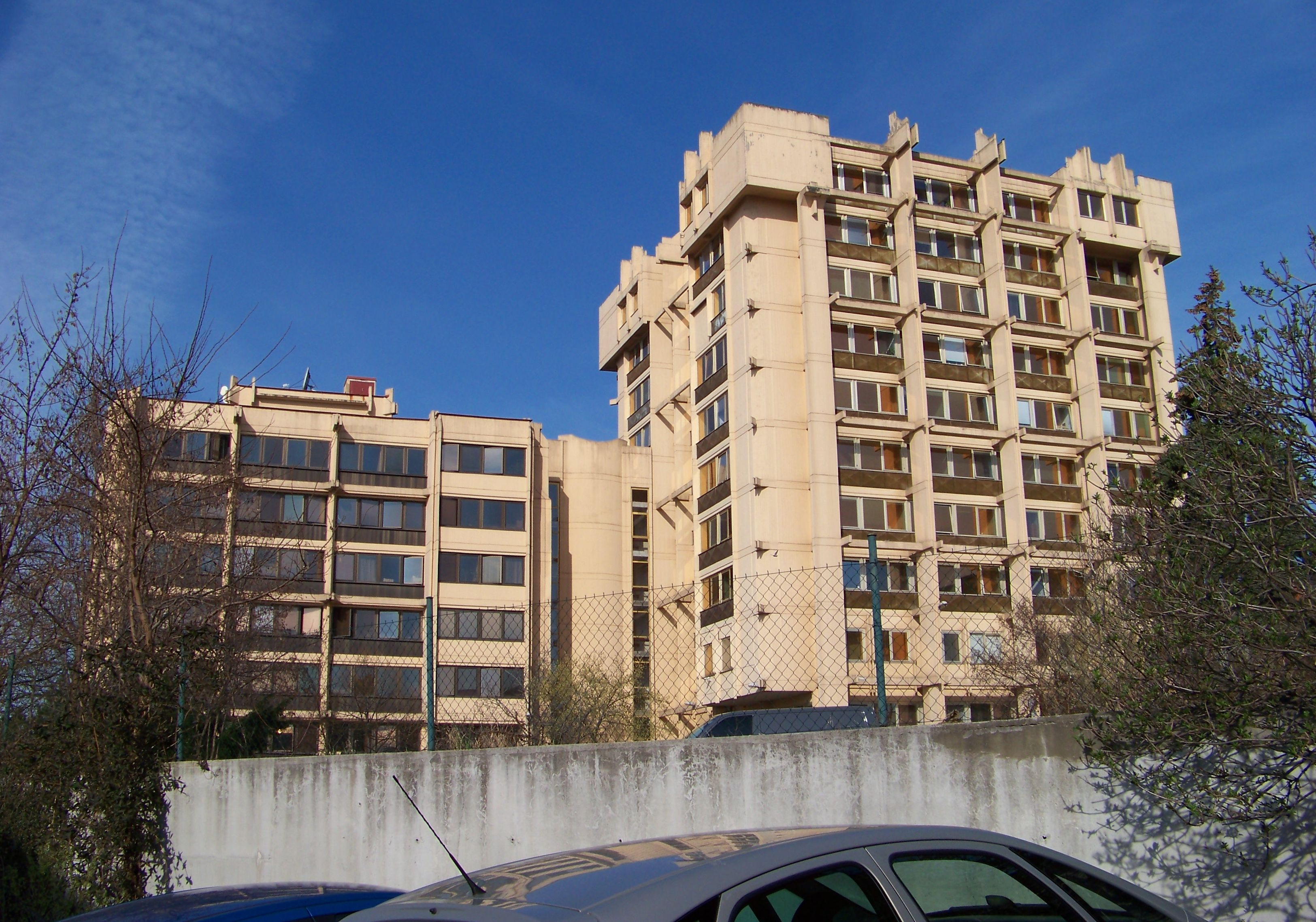 Prague-Libeň, the Czech Republic. Trojská 1997/13a, seen from U Vlachovky street. - OpenStreetMap(Info)